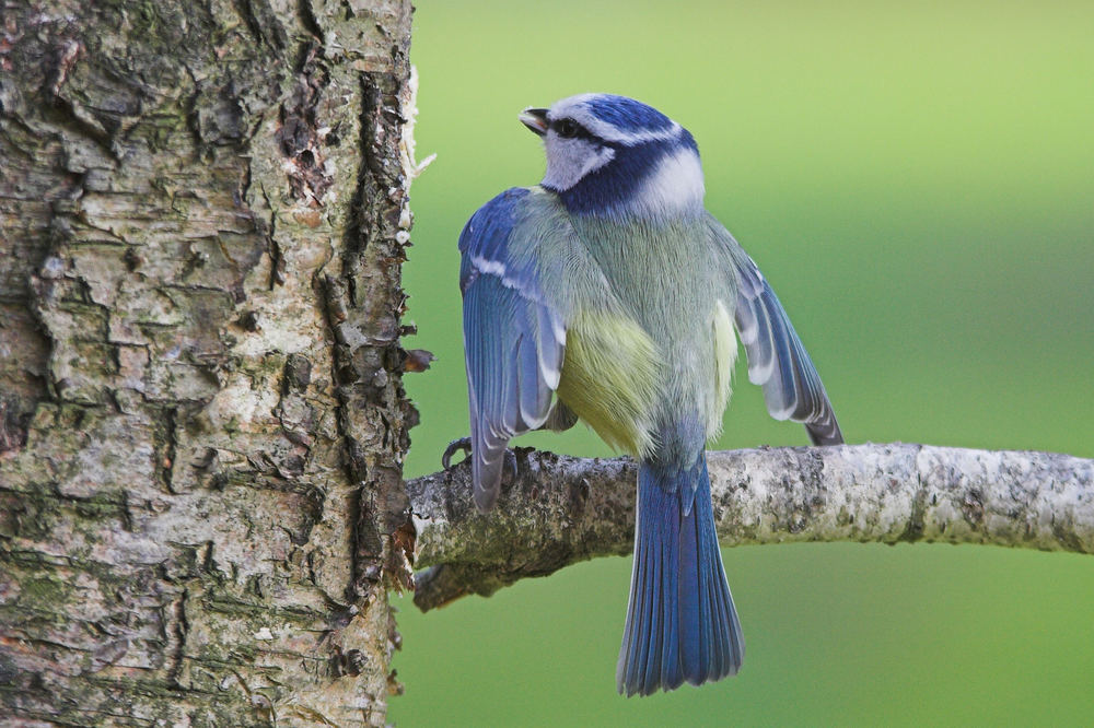 Blue tit in threatening pose